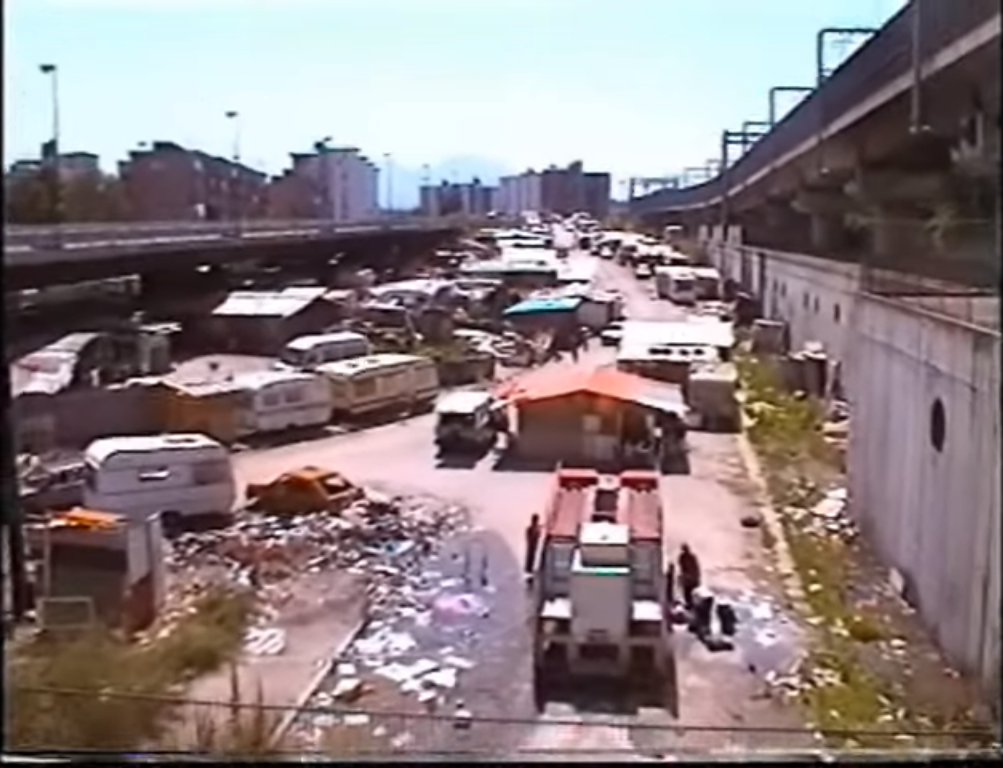 camps